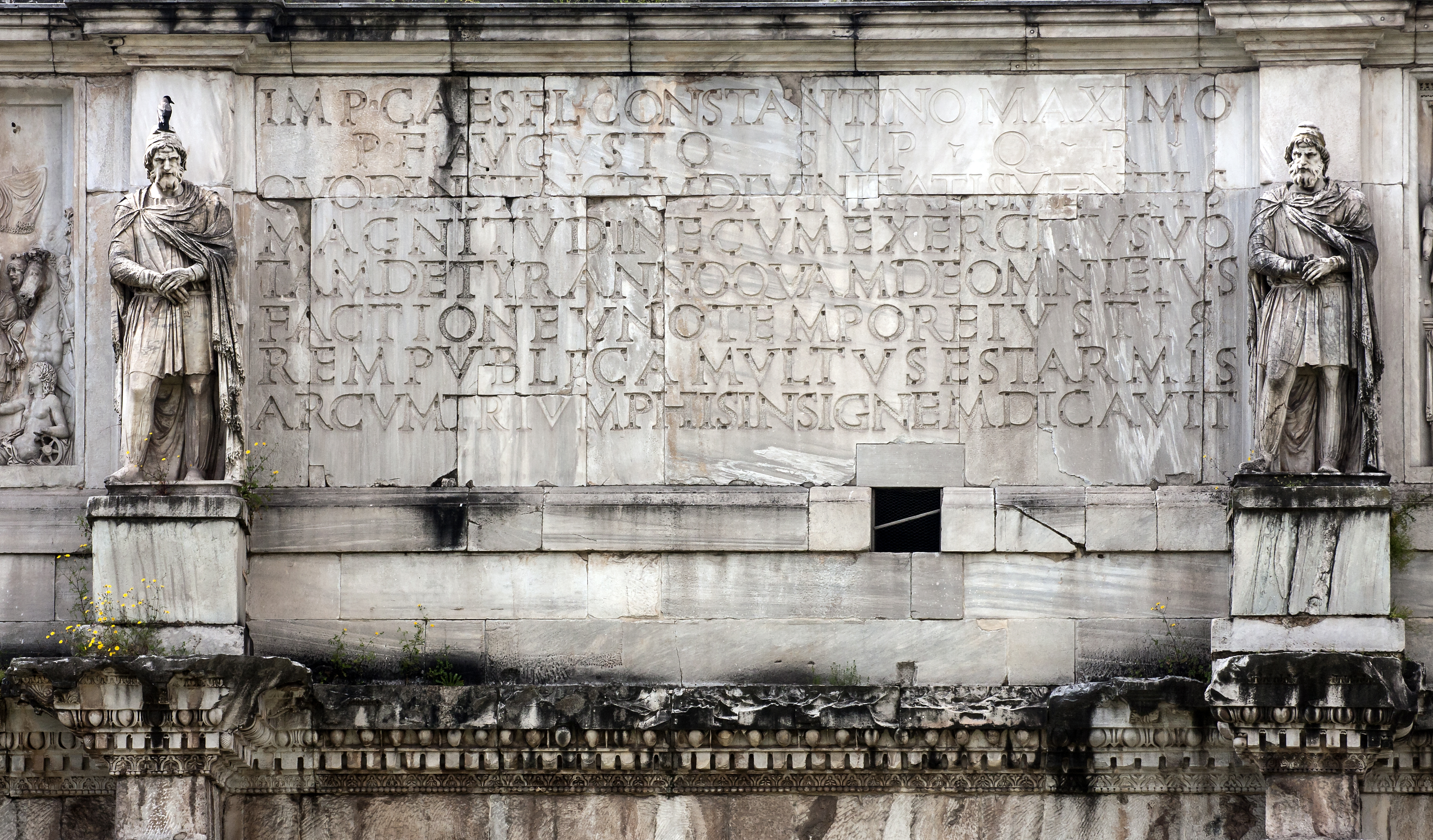 Detail from the Arch of Constantine in Rome.